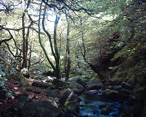 Padley Gorge, Peak District in summer 2005.